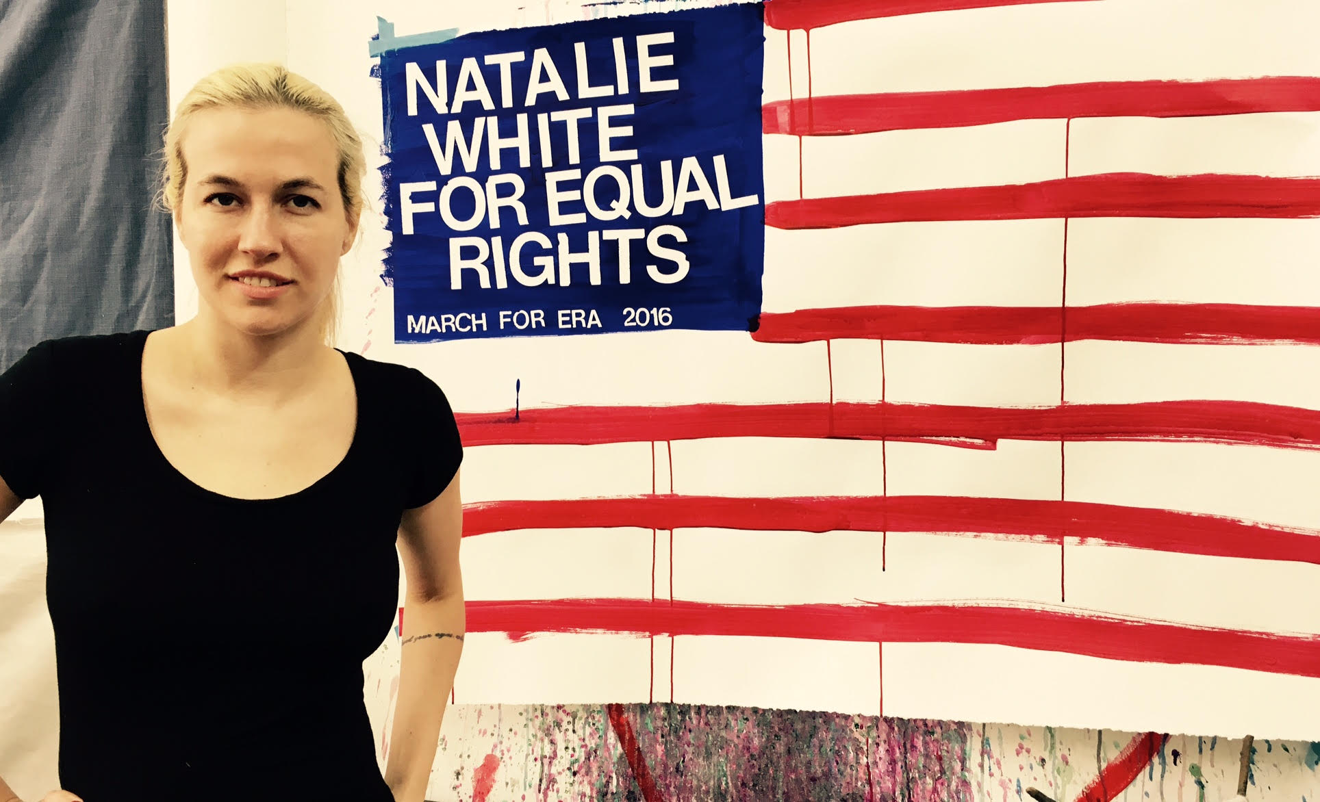 Natalie White for Equal Rights